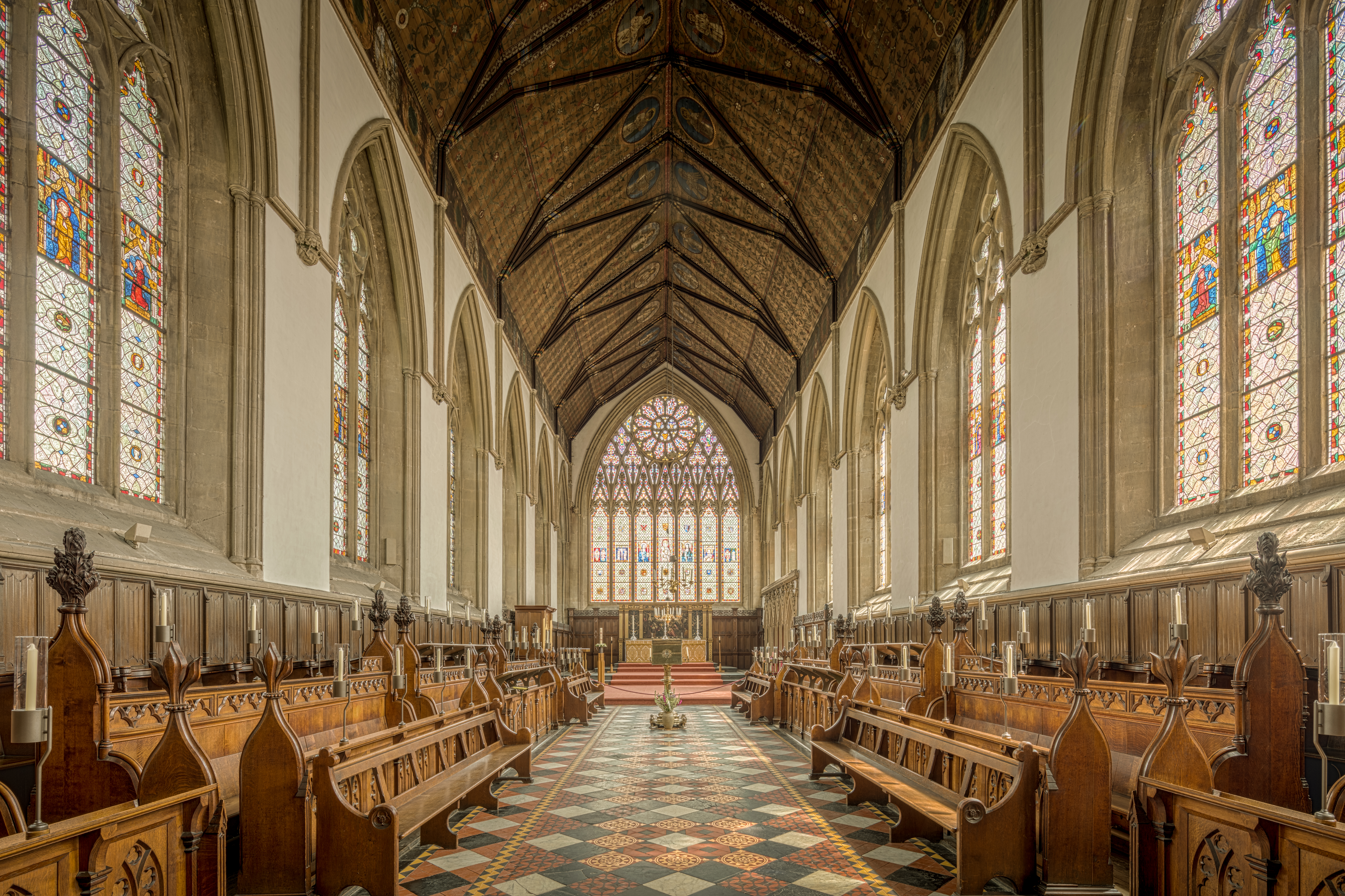 Here is an hdr photograph take from the chapel in Merton College, University of Oxford. Located in Oxford, Oxfordshire, England, UK.